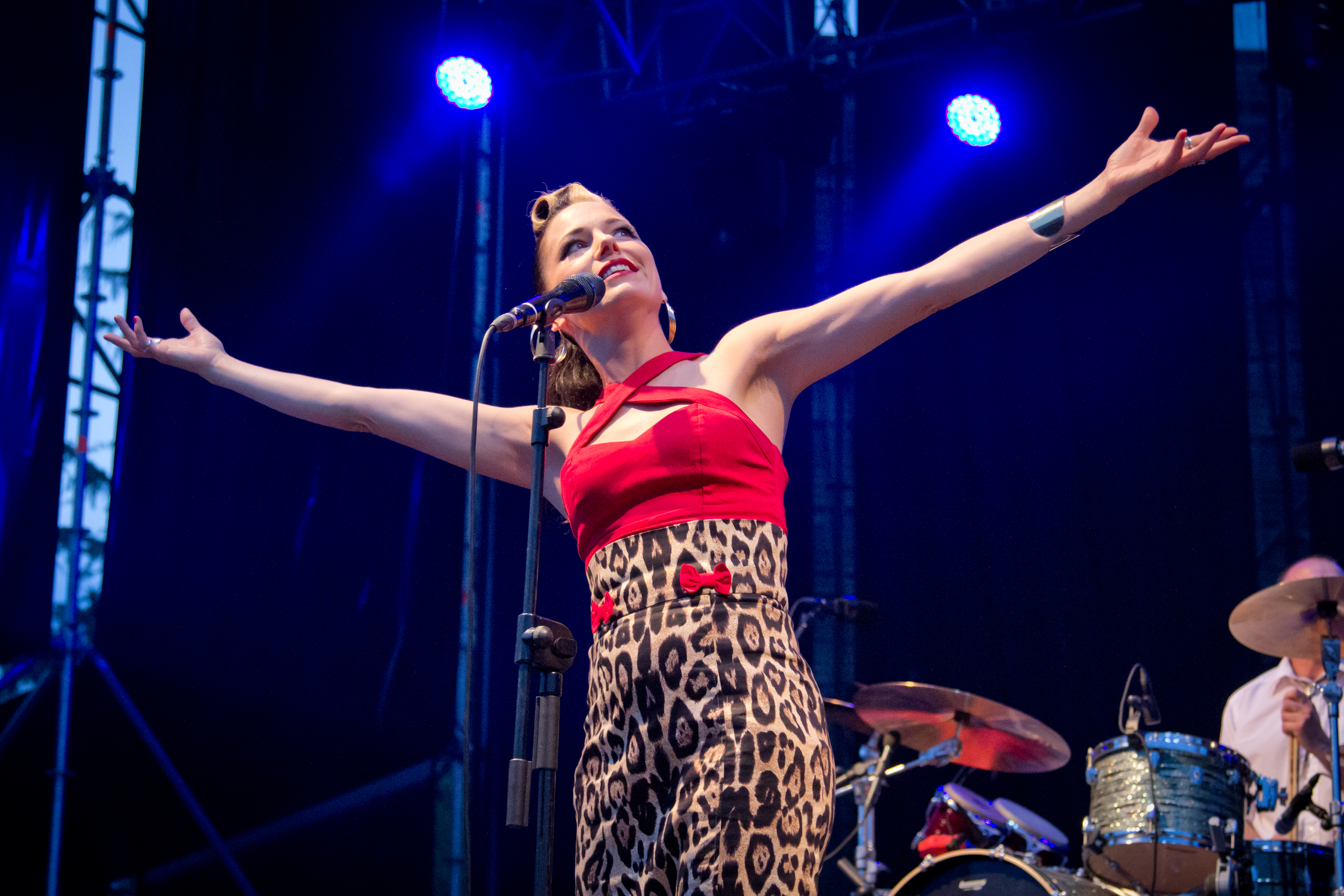 Imelda May at Madgarden Fest 2015, Madrid, Spain.